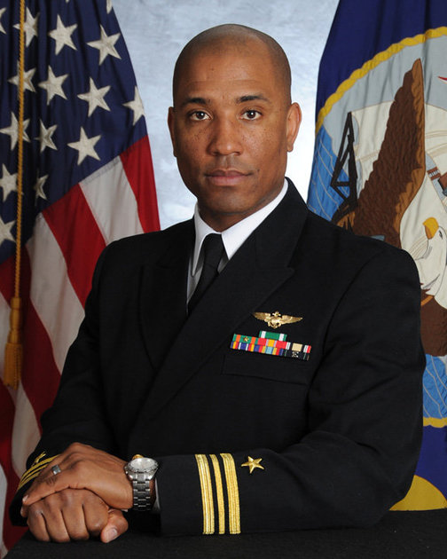 Lieutenant Commander Victor J. Glover, United States Navy